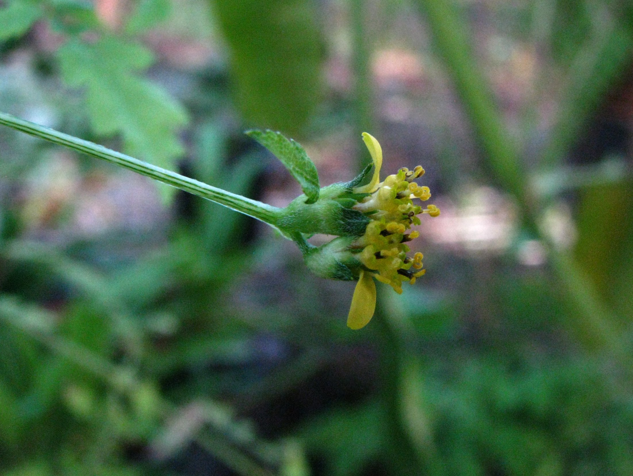 Nehe Asteraceae Endemic to the Hawaiian Islands (Kauaʻi only) Endangered Oʻahu (Cultivated) Growing from a hanging basket.